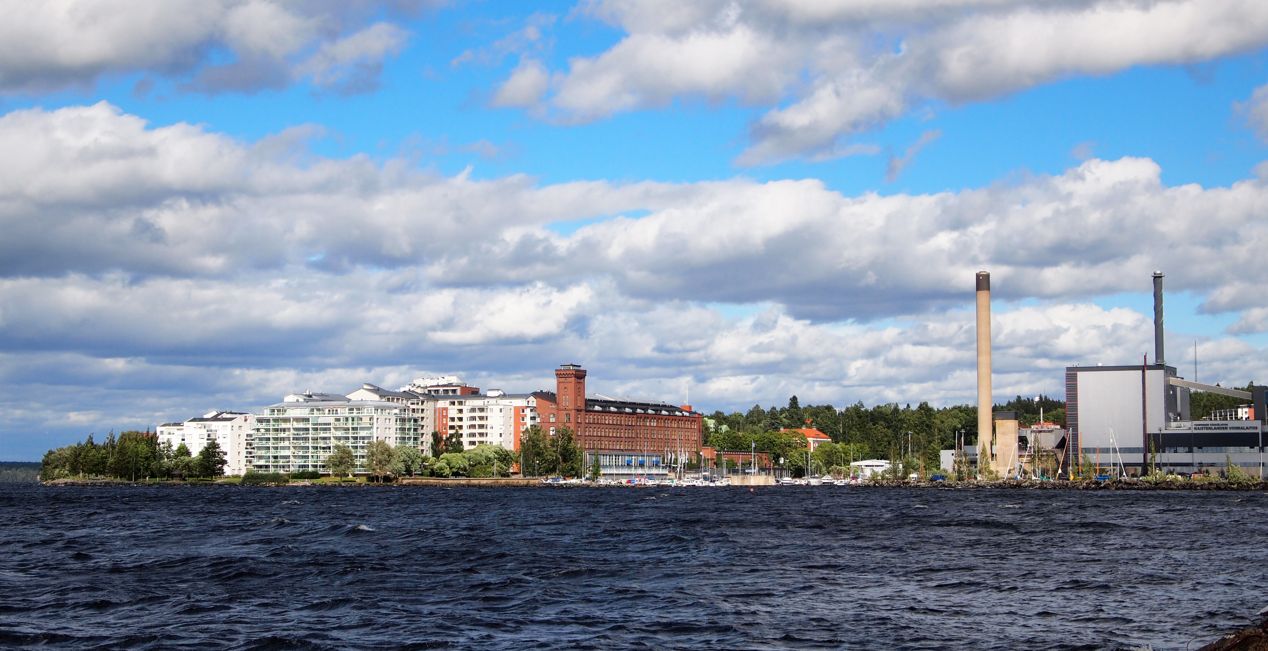 View in Tampere over tha lake Näsijärvi. This photograph was taken with an Olympus E-PL1